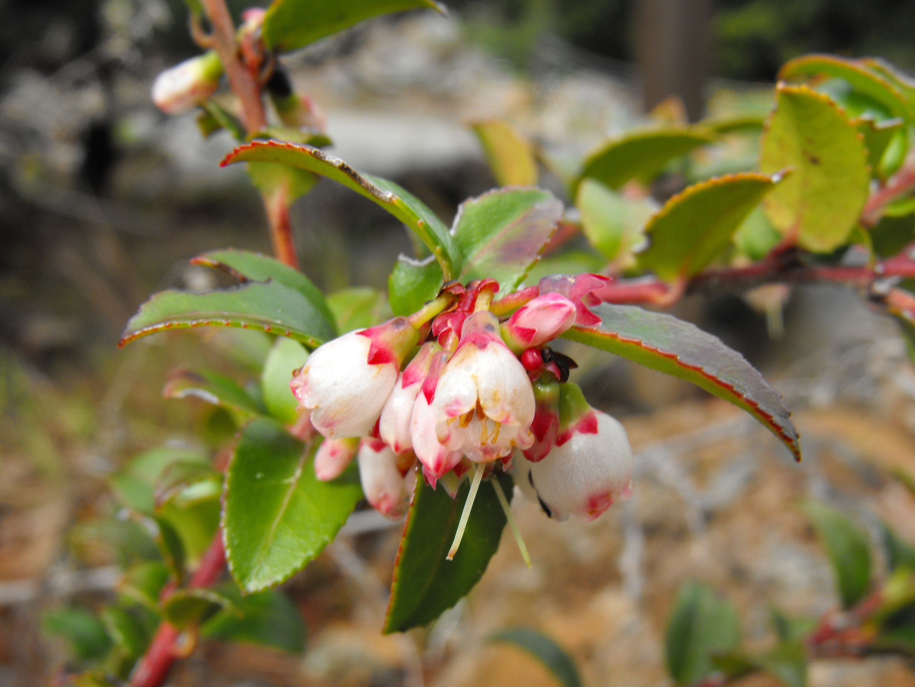 Vaccinium ovatum, California huckleberry, at the University of California Botanical Garden, Berkeley, California, USA. Identified by sign.